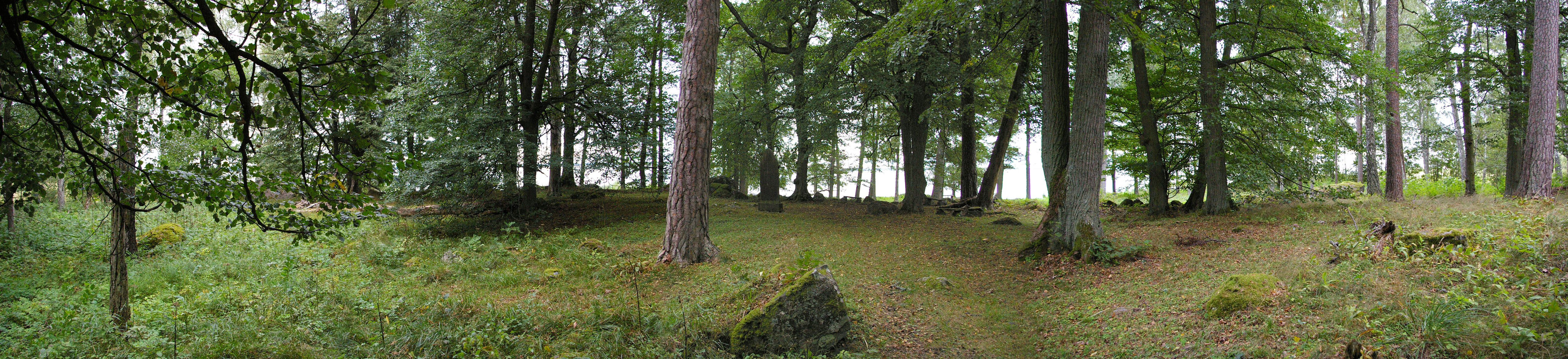 The site where the murder of Engelbrekt took place in 1436.